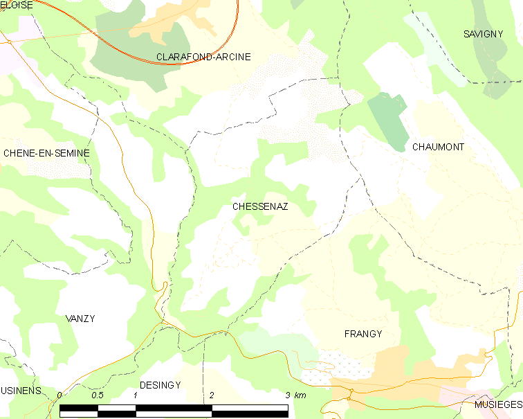 Map of French municipality Chessenaz